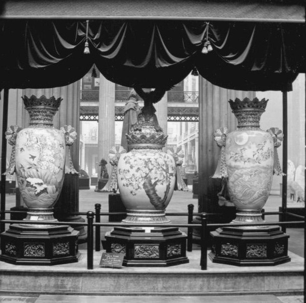 Photograph taken in 1893 of a Japanese garniture of three vases, now known as the Khalili Imperial Garniture, on display in Chicago at the World's Columbian Exposition. Right-hand side of a stereo photo. Photo from the Keystone-Mast Collection, UCR/California Museum of Photography, University of California, Riverside. Date not indicated on photograph. Gelatin silver contact print.